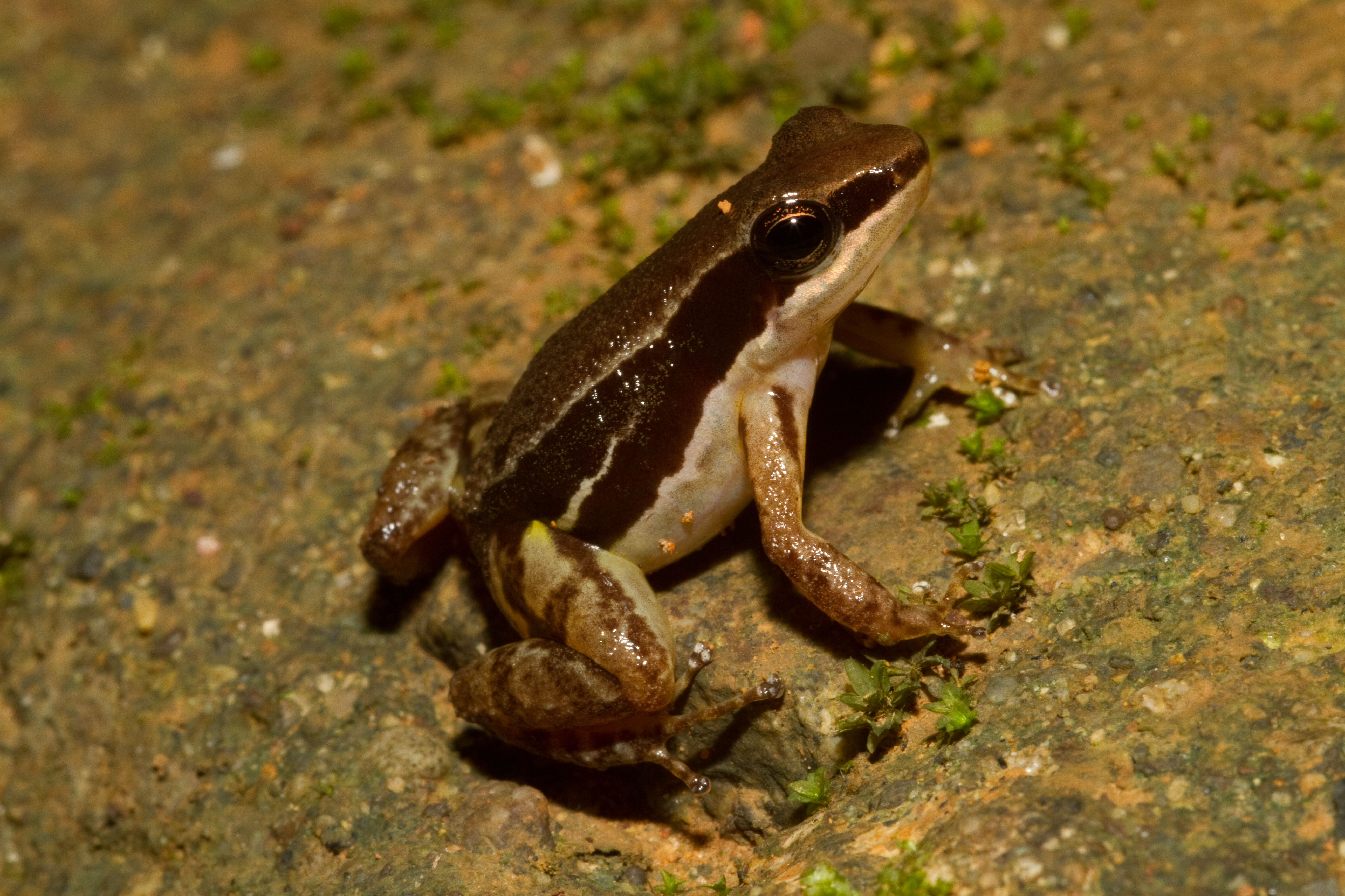 Note white triangle stripe from groin up middle of black flank